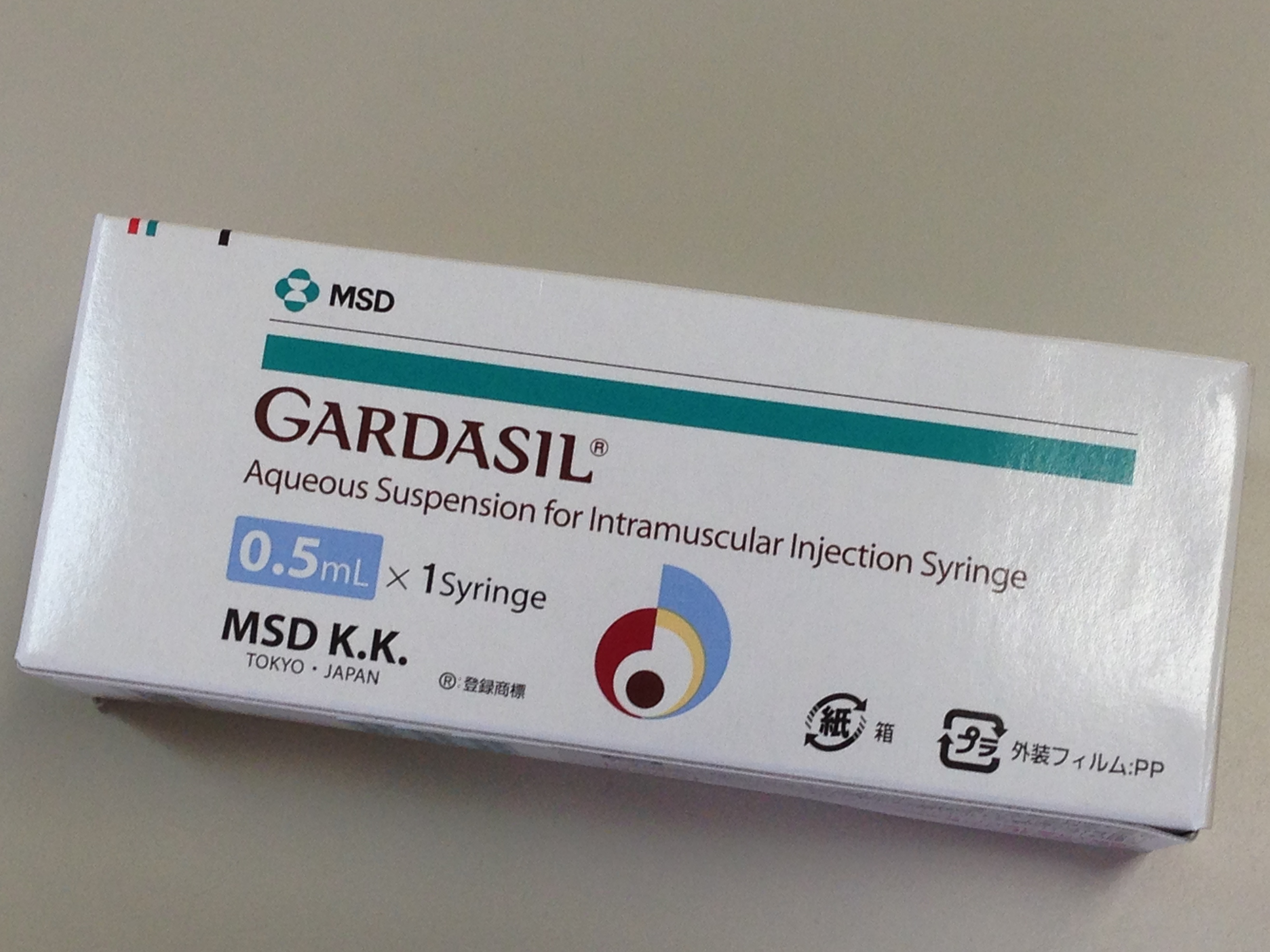 HPV-vaccine- Gardasil (JAPAN)